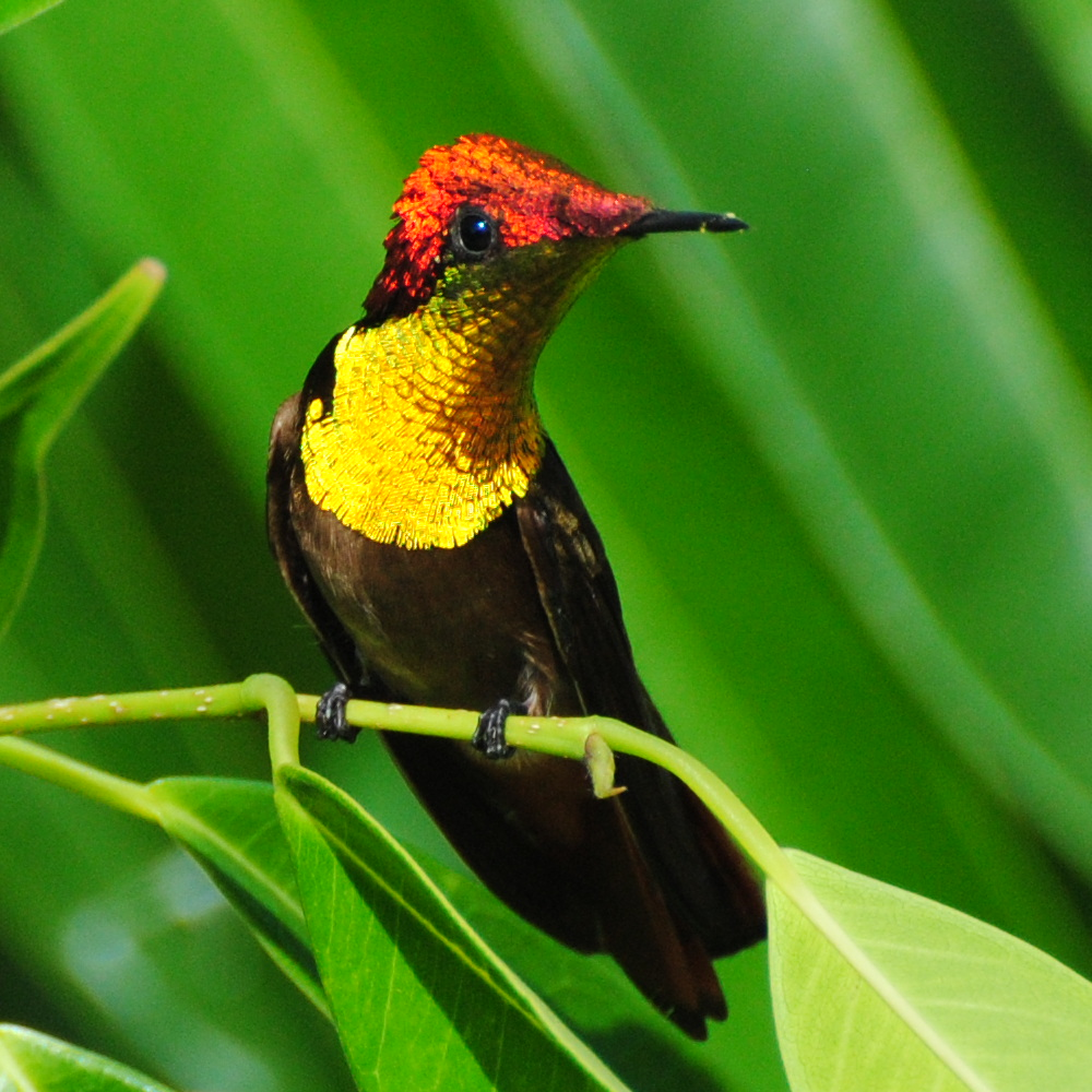 Ruby-topaz hummingbird in bright sunlight. [I believe this is a ruby-topaz hummingbird (Chrysolampis mosquitus); picture taken on Bonaire on 2010-12-03; as per the Internet information I found, there are only two species of hummingbirds on Bonaire, of which one is "iridescent, brilliant red crown and an orange-gold throat" and the other "deep green" (emerald hummingbird, chlorostilbon mellisugus).]